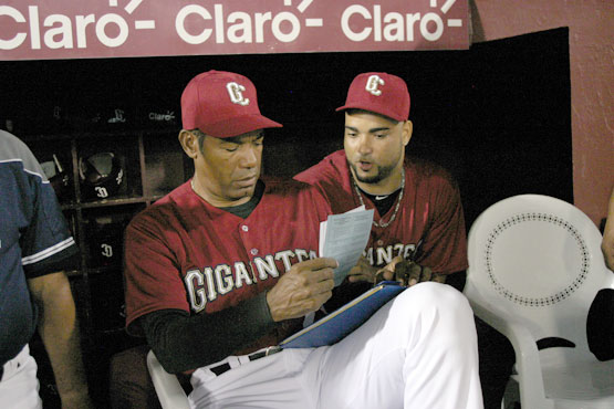 Arturo De Freites, el dirigente que mas veces a dirigido al equipo.